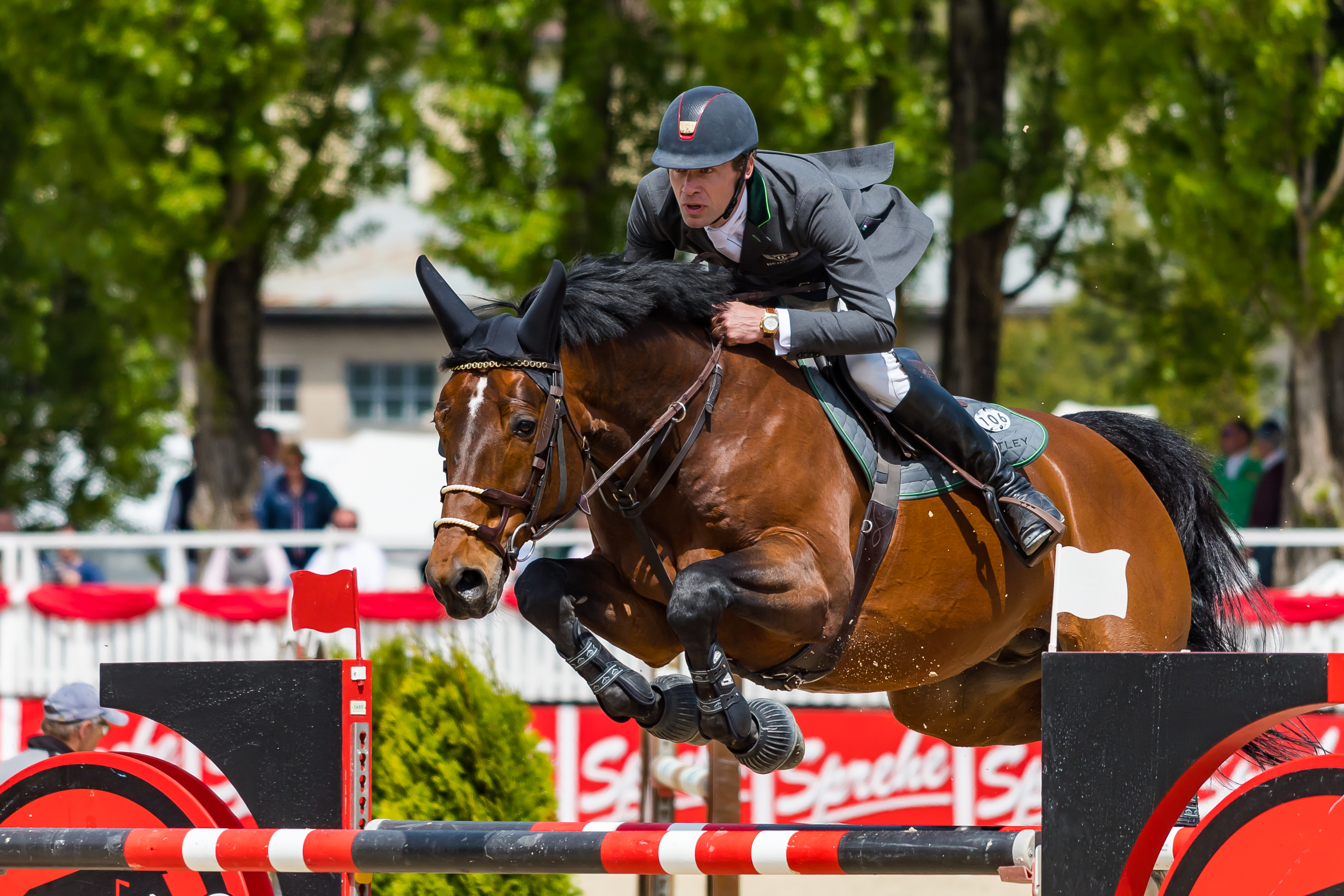 Linzer Pferdefestival / SILVER TOUR / May 4, 2017/ Int. jumping competition against the clock (1.40 m) / Table A, FEI Art. 238.2.1 - CSIO4* - 1 horse per athlete / Chopin van het Moleneind, Thomas Velin (DEN)